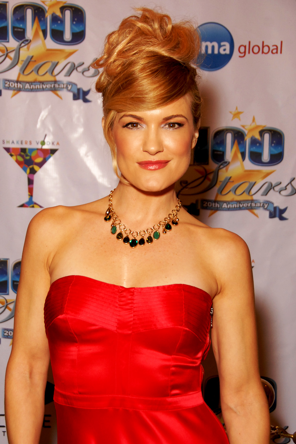 victoria Pratt attending the "Night of 100 Stars" for the 82nd Academy Awards viewing party at the Beverly Hills Hotel, Beverly Hills, CA on March 7, 2010 - Photo by Glenn Francis of